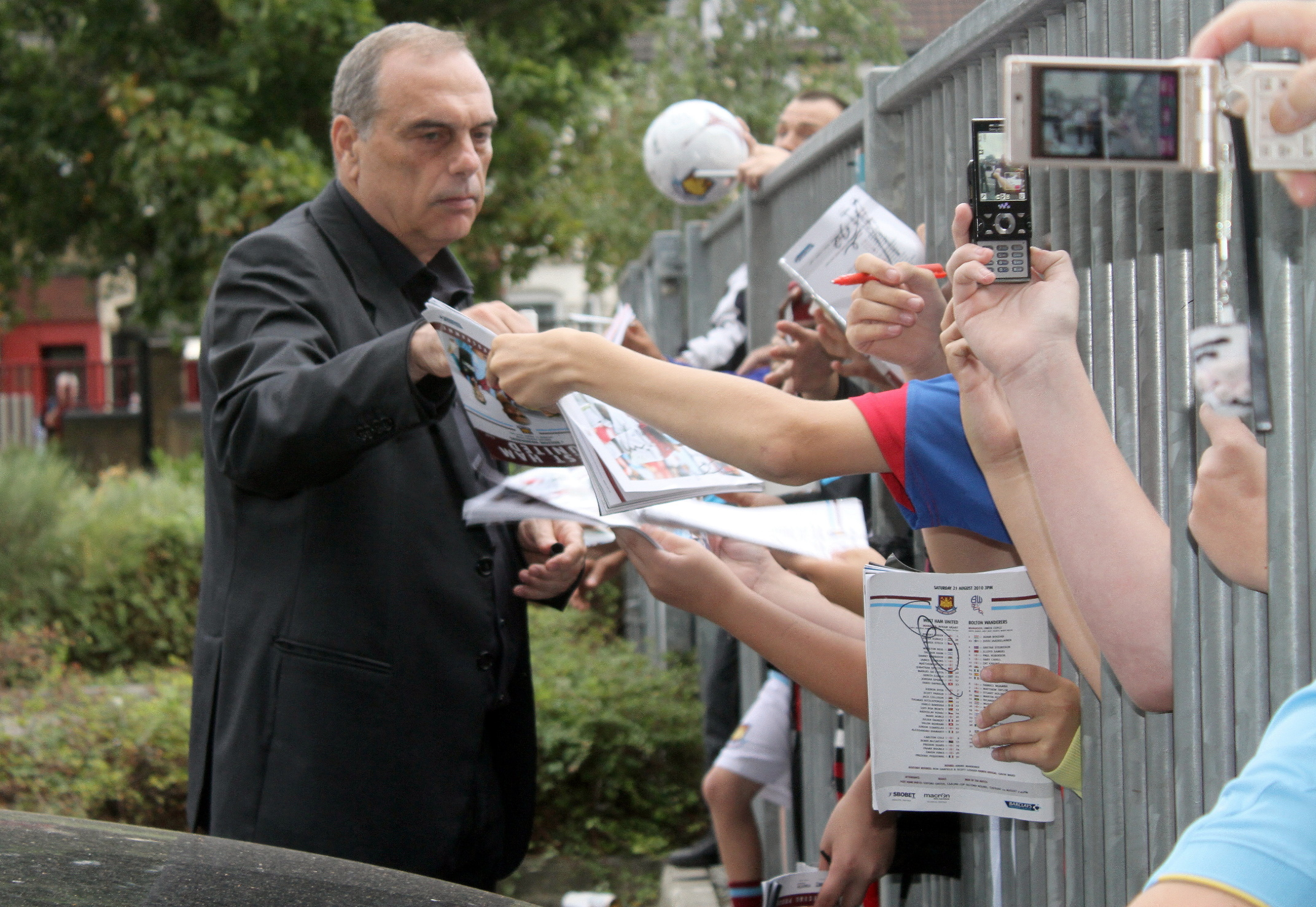 Avram Grant post match signing autographs West Ham United v Bolton Wanderers 21Aug10